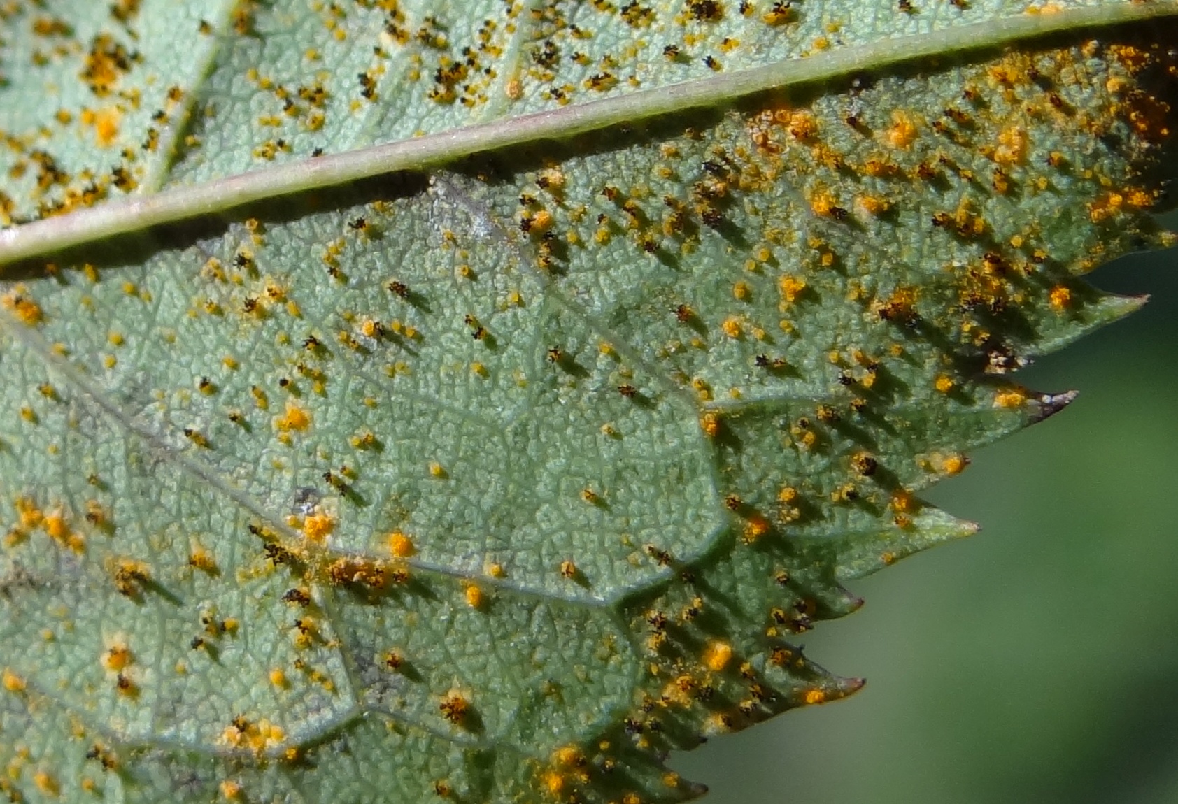 Phragmidium mucronatum on Rosa sp. (location: Poland, Szczawnica. Telium and uredium on leaves